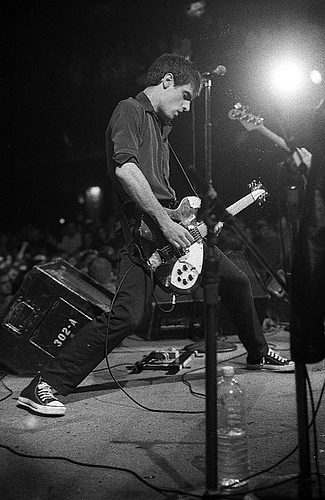 Guy Picciotto playing with Fugazi